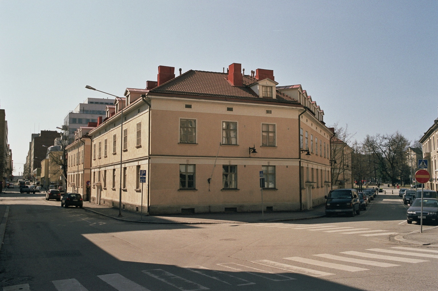 An old building on the corner of the streets Aleksanterinkatu and Ojakatu in Kyttälä, Tampere, Finland.